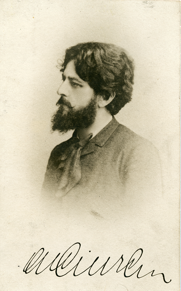 Postcard with Autograph, 1911, Romanian Academy Library.